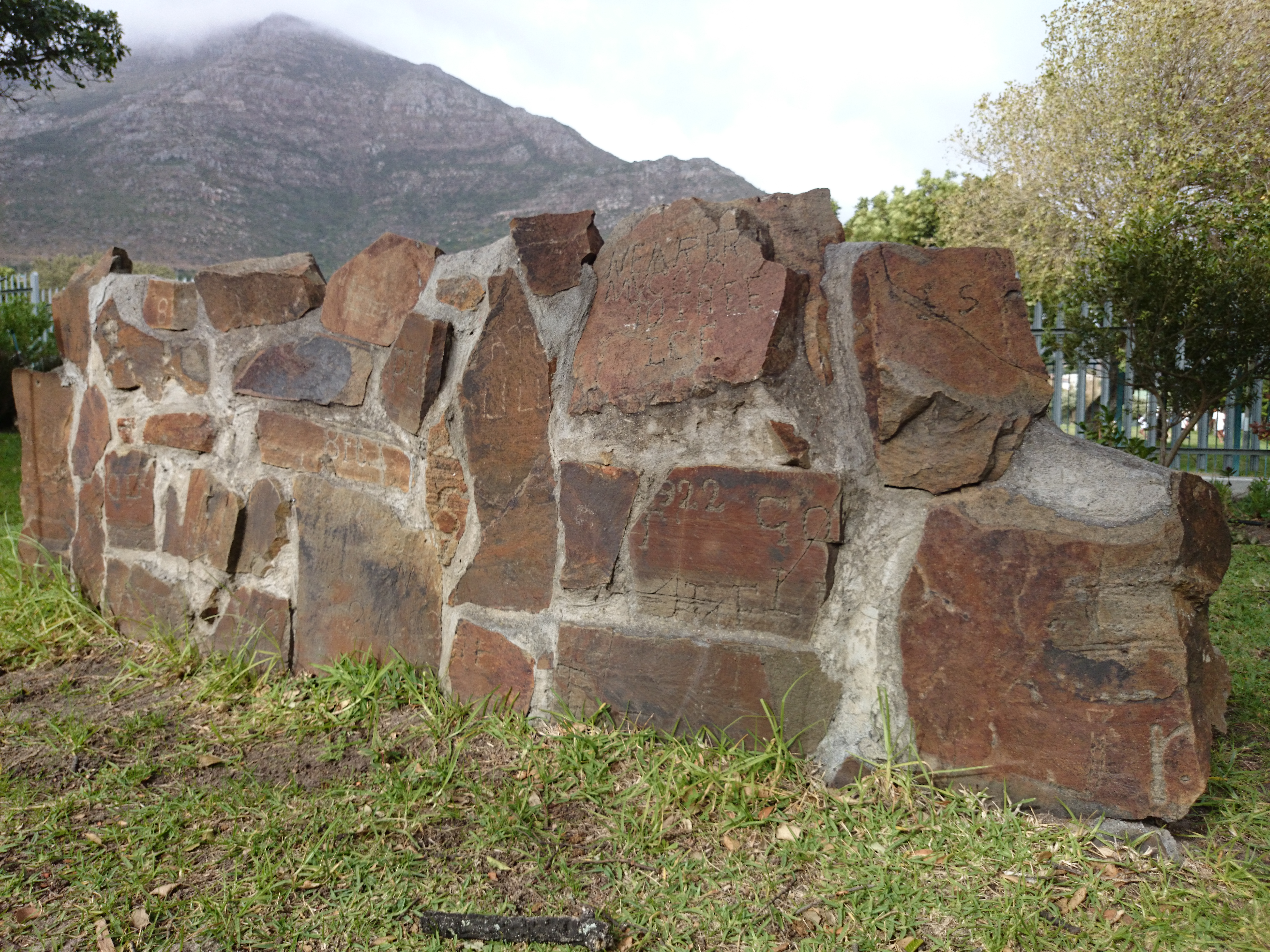 Rock graffiti made my workers on forts in the year 1922, as can be seen on the rocks.